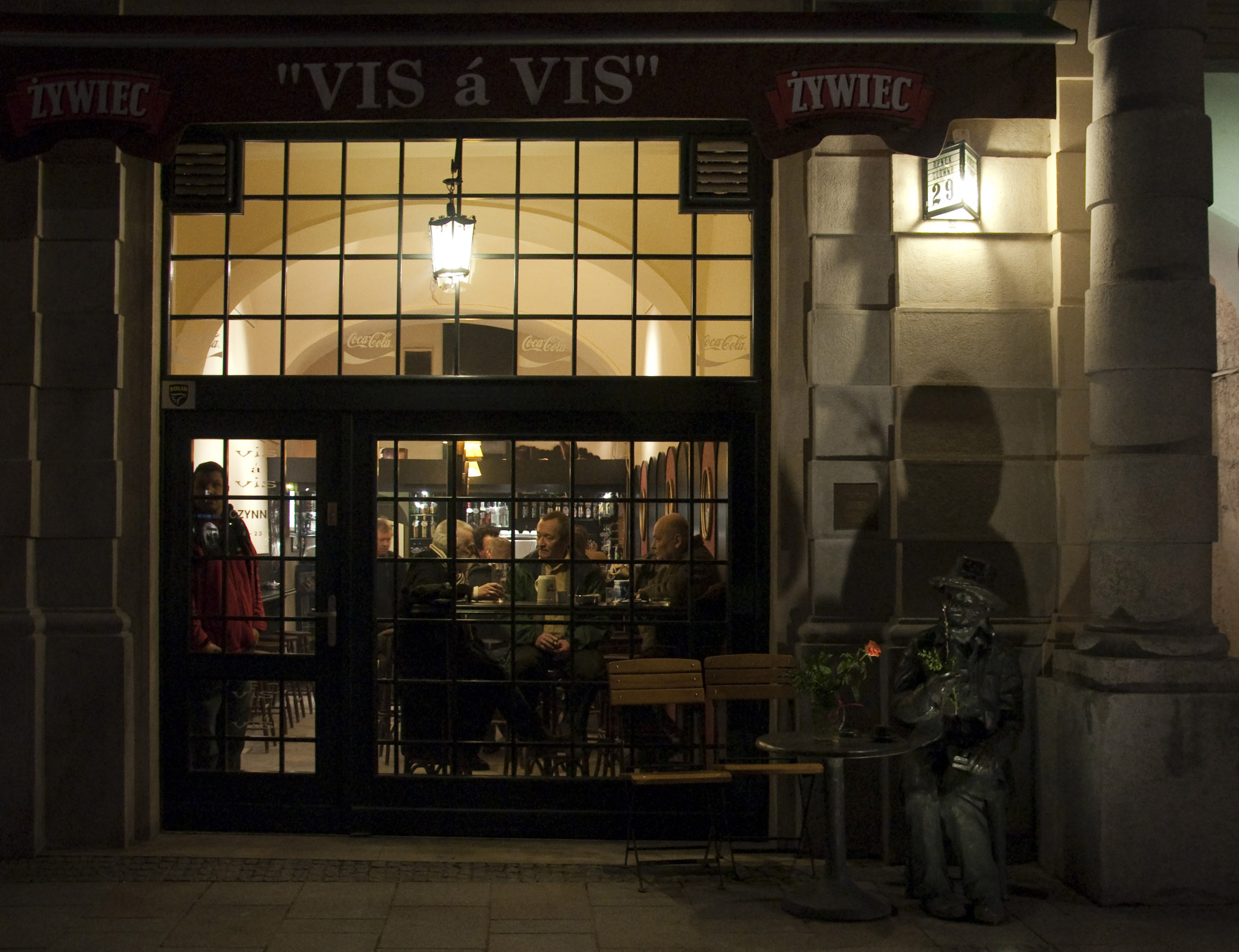 Vis-à-vis Bar in Kraków